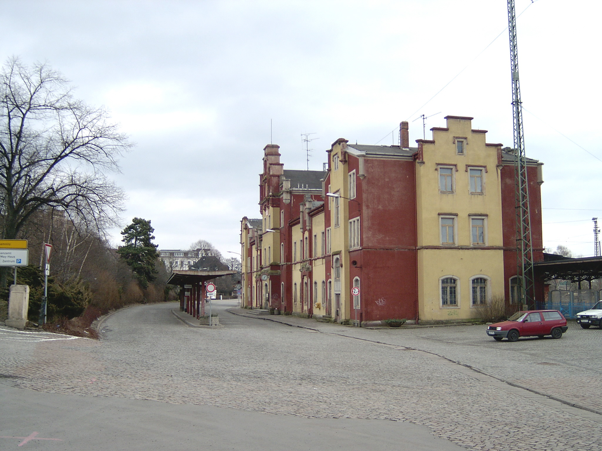 Railway station at Hohenstein-Ernstthal (Saxony), station building errected 1858, enlarged 1899-1902, demolished 2007